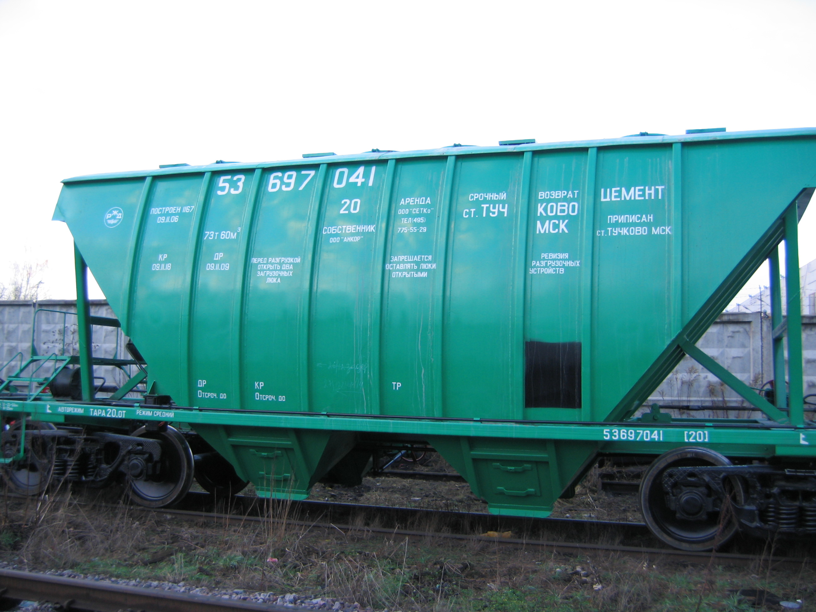 Hopper railroad car in Kaloshino industrial zone, Moscow, Russia